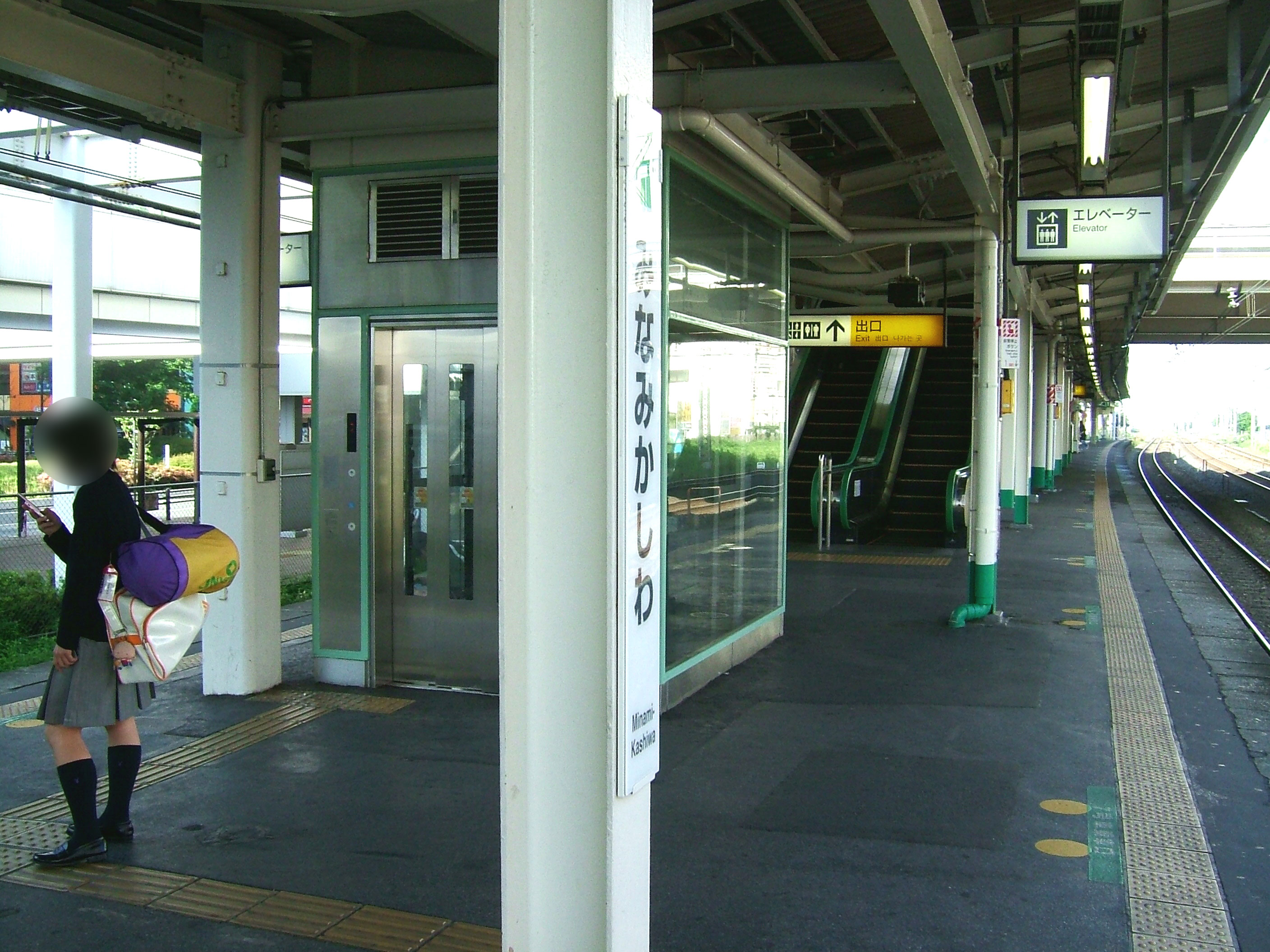 Minami-Kashiwa Station platform (East Japan Railway Jōban Line)